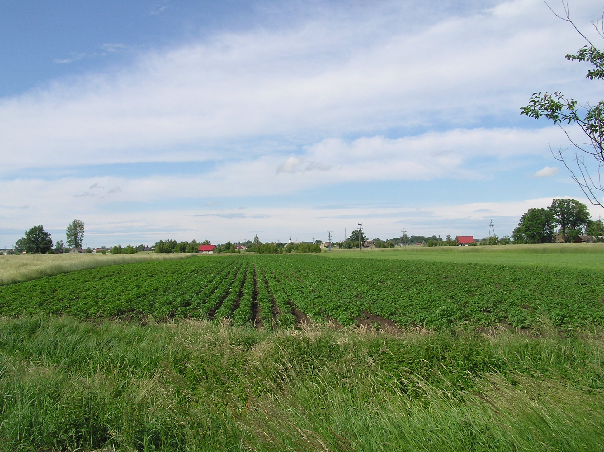 Złoczew (Poland, Łódź Voivodeship, Sieradz County), Starowiejska Street